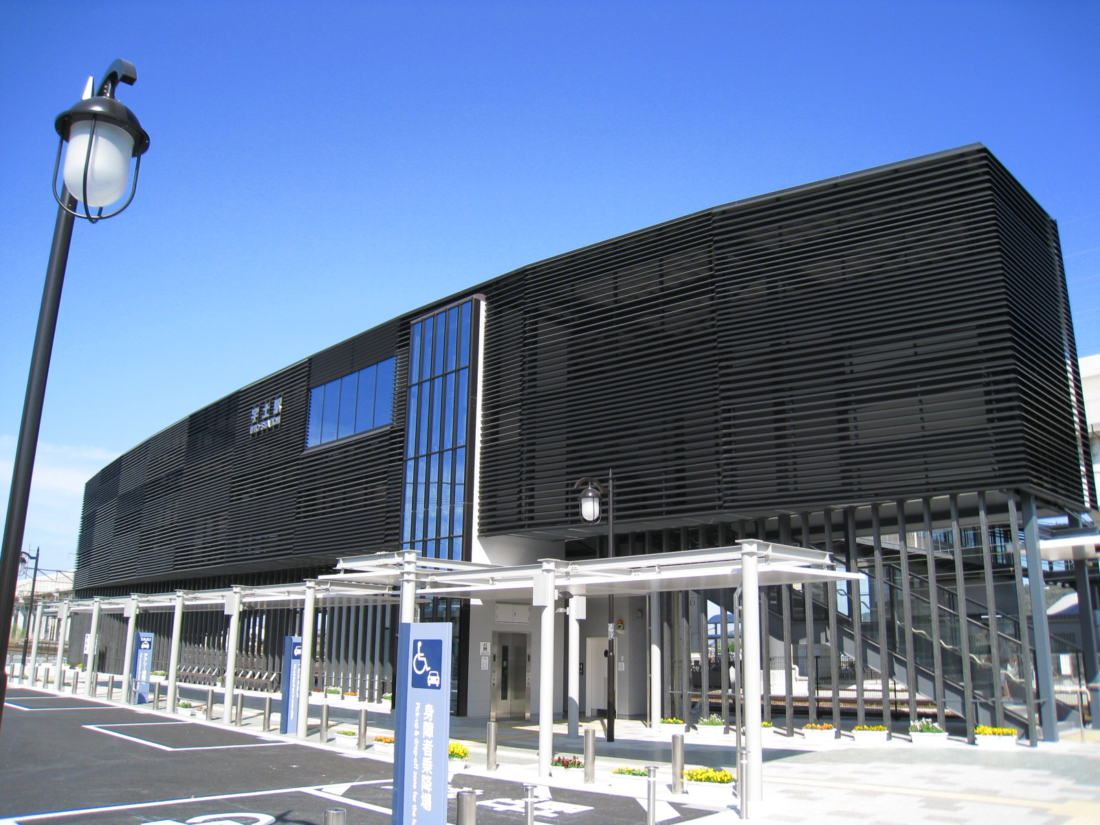 Entrance of Uto Station, Uto City, Kumamoto, Japan